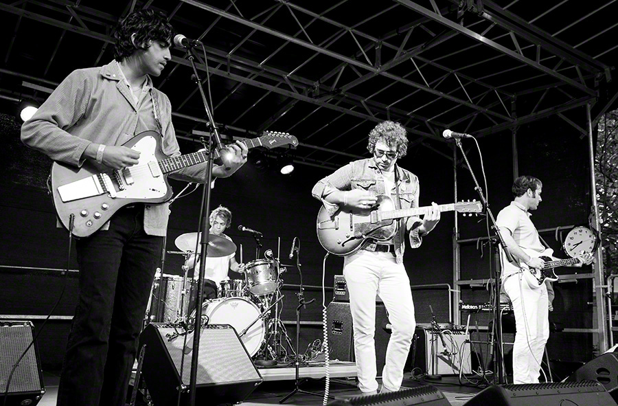 Allah-Las performs at Piknik i Parken in Oslo on 25. June 2016. Lineup: Matthew Correia (percussion), Spencer Dunham (bass), Miles Michaud (guitar/vocal), Pedrum Siadatian (guitar)